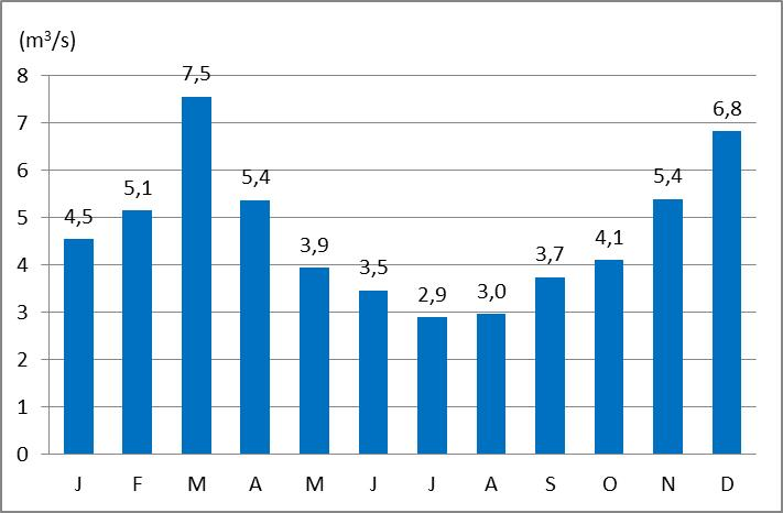 Average monthly discharges of Pesnica River at the gauging station Zamušani in 1981–2010